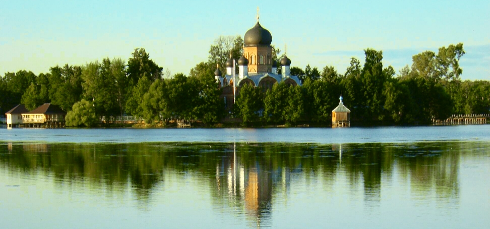 Vvedenski (Presentation of the Blessed Virgin Mary) monastery, Pokrov, Russia. Vvedenski cathedral.